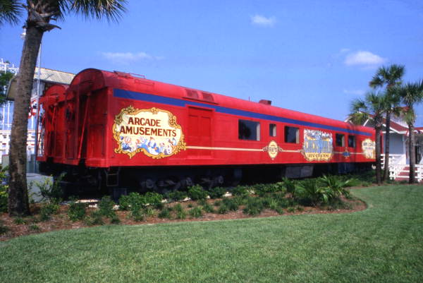 Local call number: COM01654 Title: Circus World antique railway car: Orlando, Florida Date: Between 1973 and 1986. Physical descrip: 1 slide; col. Series Title: Department of Commerce collection General note: The antique Barnum and Bailey train cars housed a display of circus memorabilia. Circus World was built in 1973 by the Felds (then owners of Ringling Brothers) to combine circus-based shows and amusement park rides with a new winter quarters for the Ringling Brothers Barnum and Bailey Circus. It was later sold to Mattel, Inc., who sold it to developer Jim Monaghan in 1984. Monaghan sold it to Harcourt Brace and Jovanovich in 1986, who shut the park down and rebuilt it as Boardwalk and Baseball, which opened on February 14, 1987. Harcourt Brace and Jovanovich sold its theme park assets (which included SeaWorld and Cypress Gardens) to Busch Entertainment Corporation on September 28, 1989, and Busch closed Boardwalk and Baseball on January 17, 1990. Repository: State Library and Archives of Florida, 500 S. Bronough St., Tallahassee, FL 32399-0250 USA. Contact: 850.245.6700. Persistent URL